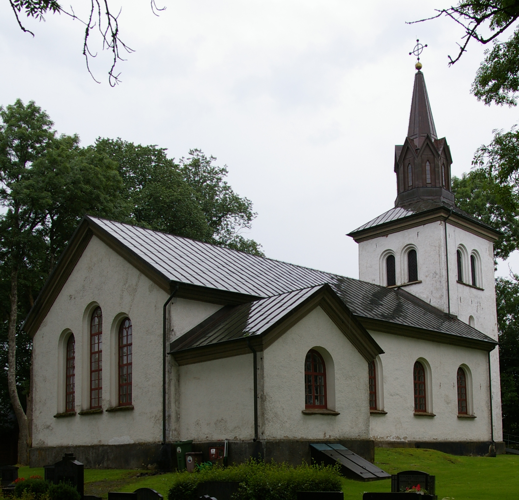 Brismene kyrka (Swedish:Church of Brismene) in Västergötland, Sweden.